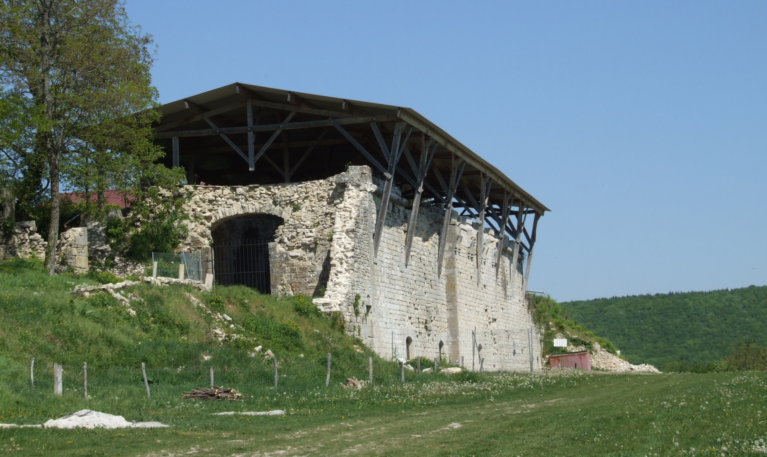 Saint-Vivant abbey, Curtil-Vergy, Côte-d'Or, Burgundy, France.